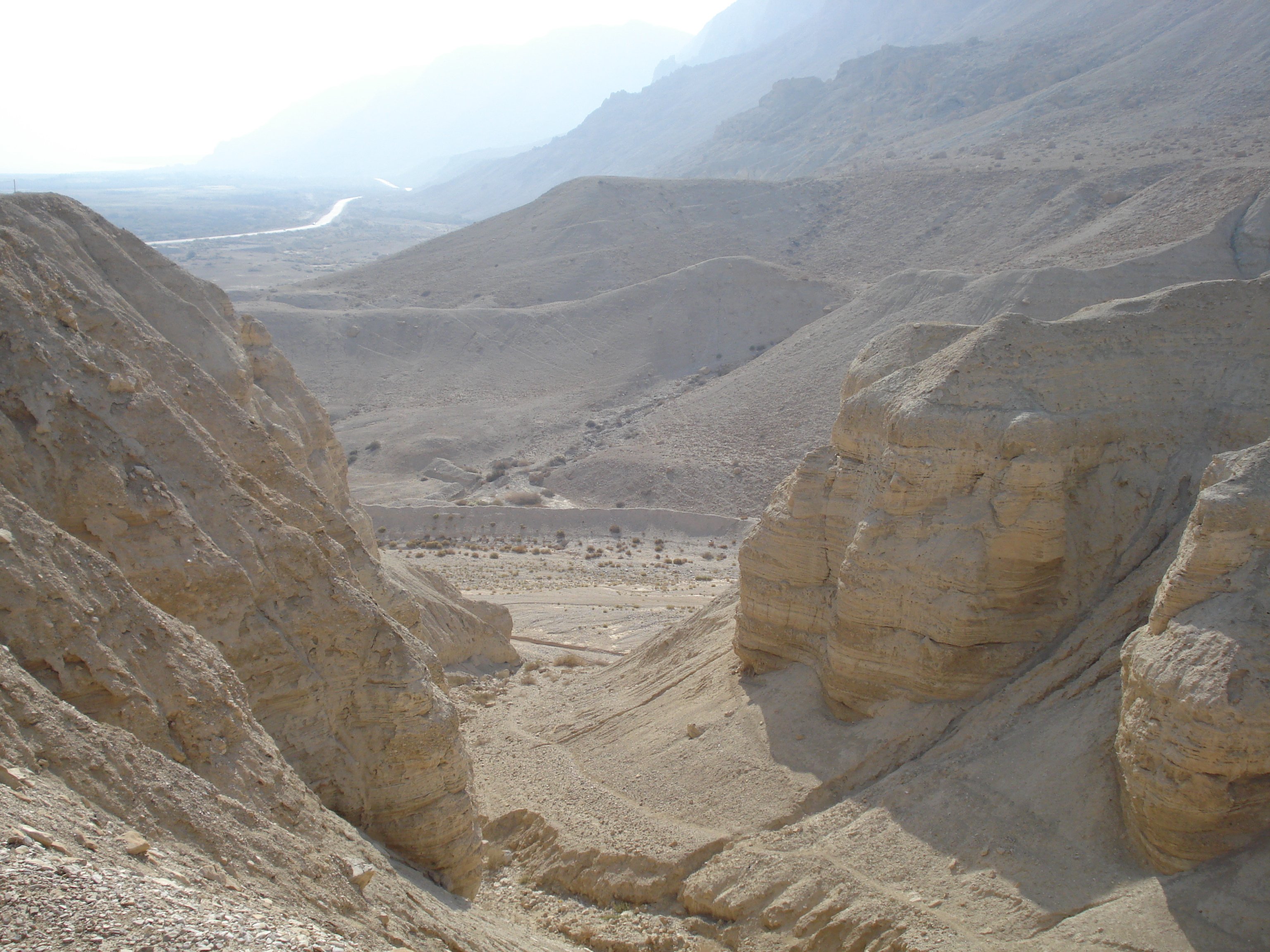 December 2009 in Jordan & Israel tourist sites